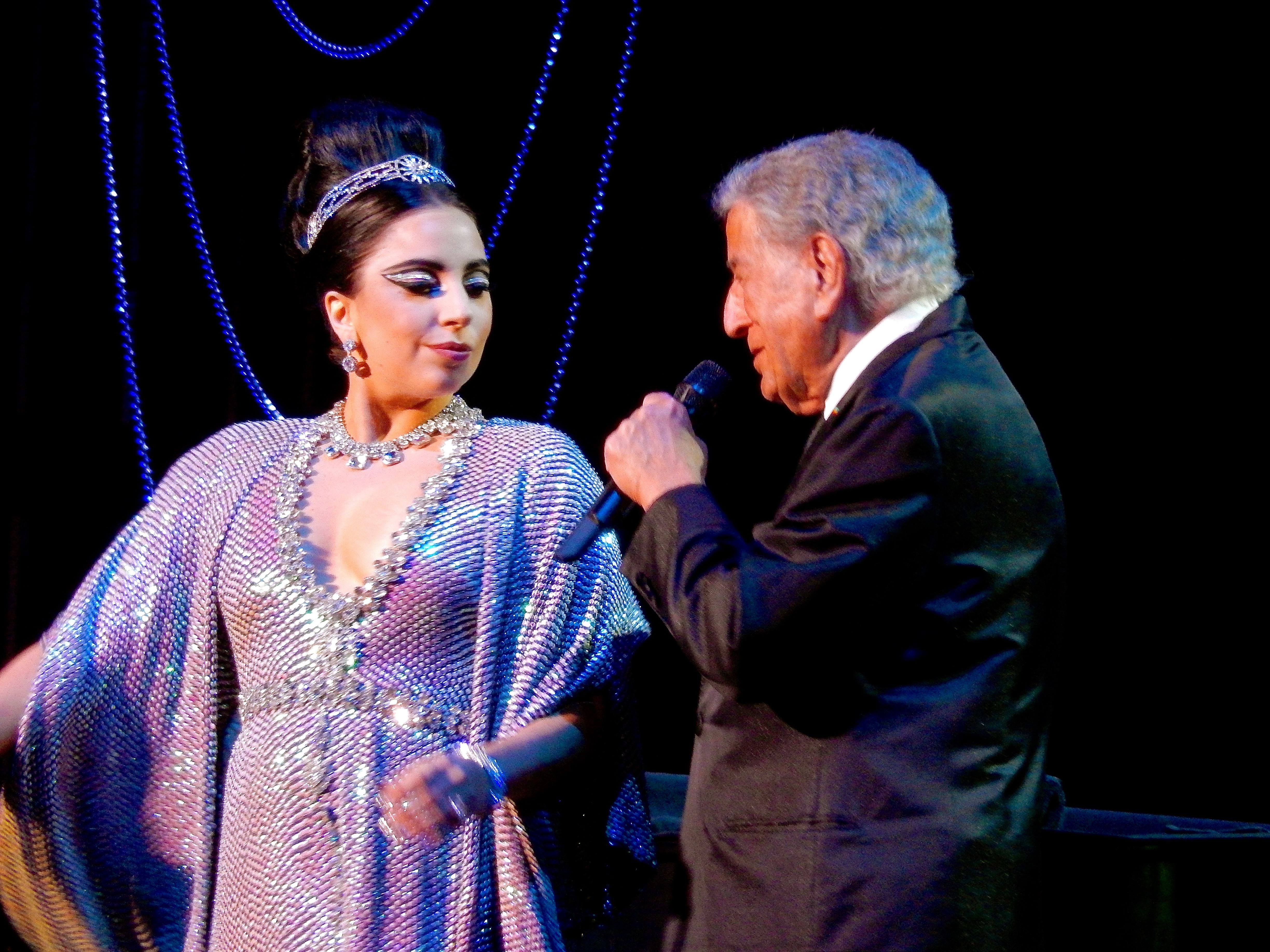 Cheek to Cheek Concert. The Axis. Planet Hollywood. Las Vegas. April 2015. Gaga and Bennett performing at Los Angeles for the Cheek to Cheek Tour